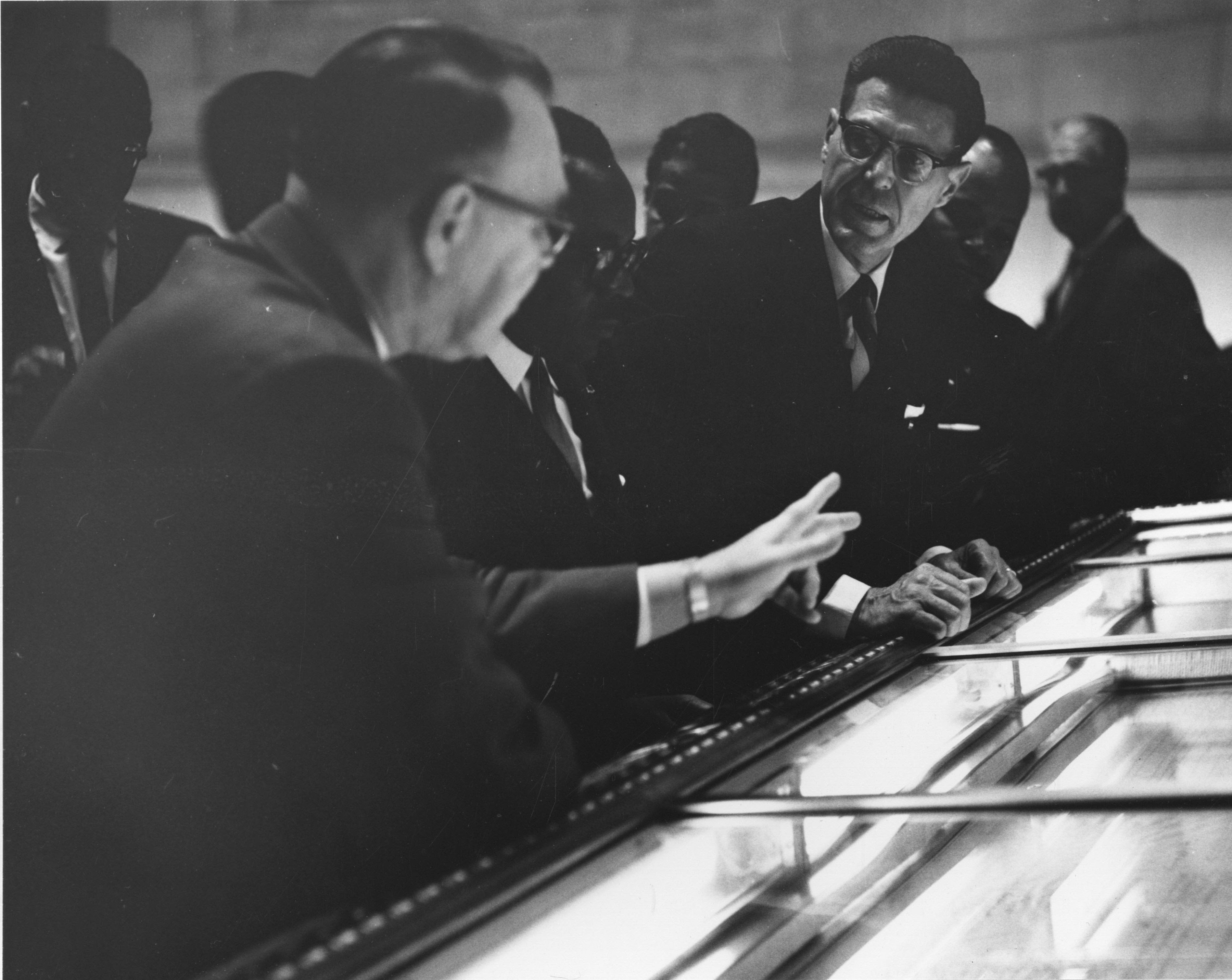 Archivist of the United States Robert Bahmer shows the United States Constitution to President of Upper Volta Maurice Yaméogo